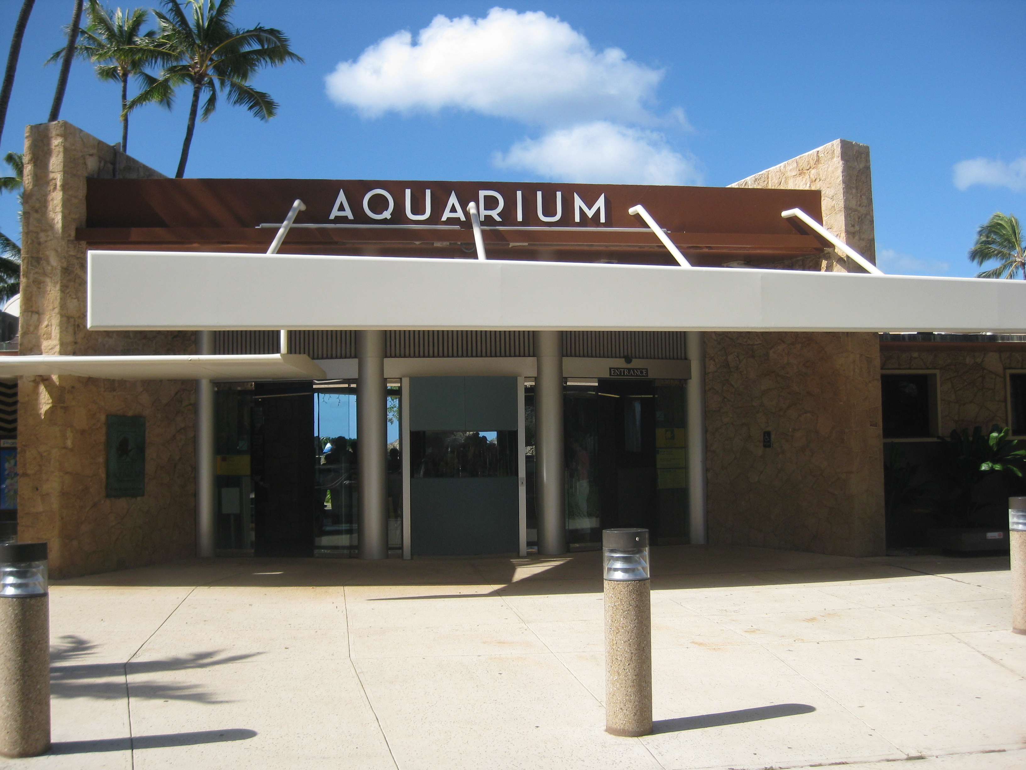 Entrance to the Waikiki Aquarium in Honolulu, Hawaii